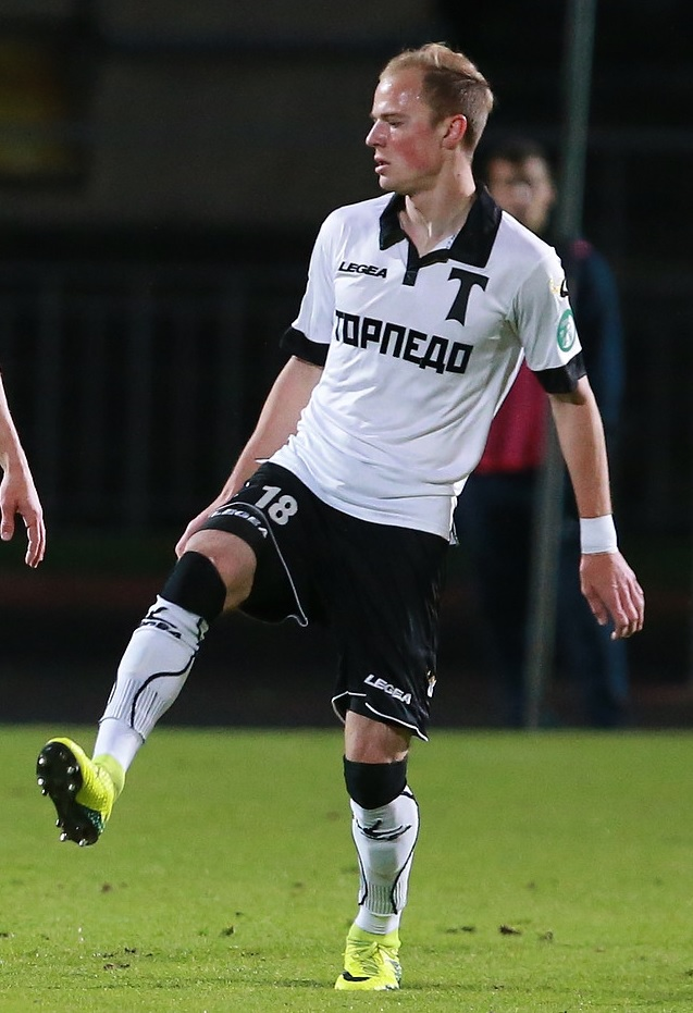 Ragim Sadykhov with FC Torpedo Moscow in a game against FC Ararat Moscow.